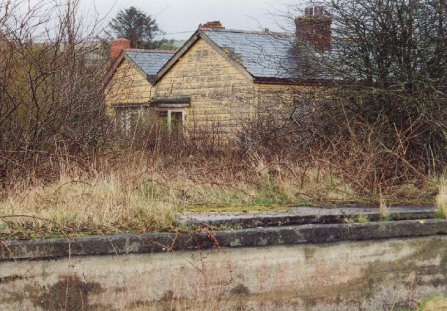 Letterston station, North Pembrokeshire. Letterston was the most westerly station on a branch that served North Pembrokeshire by forming a loop off the GWR main line to Fishguard Harbour. The last passenger train ran in 1937 and most of the line closed to goods traffic in 1949. The old loading bay survives alongside the wooden station building still in use as a residence.